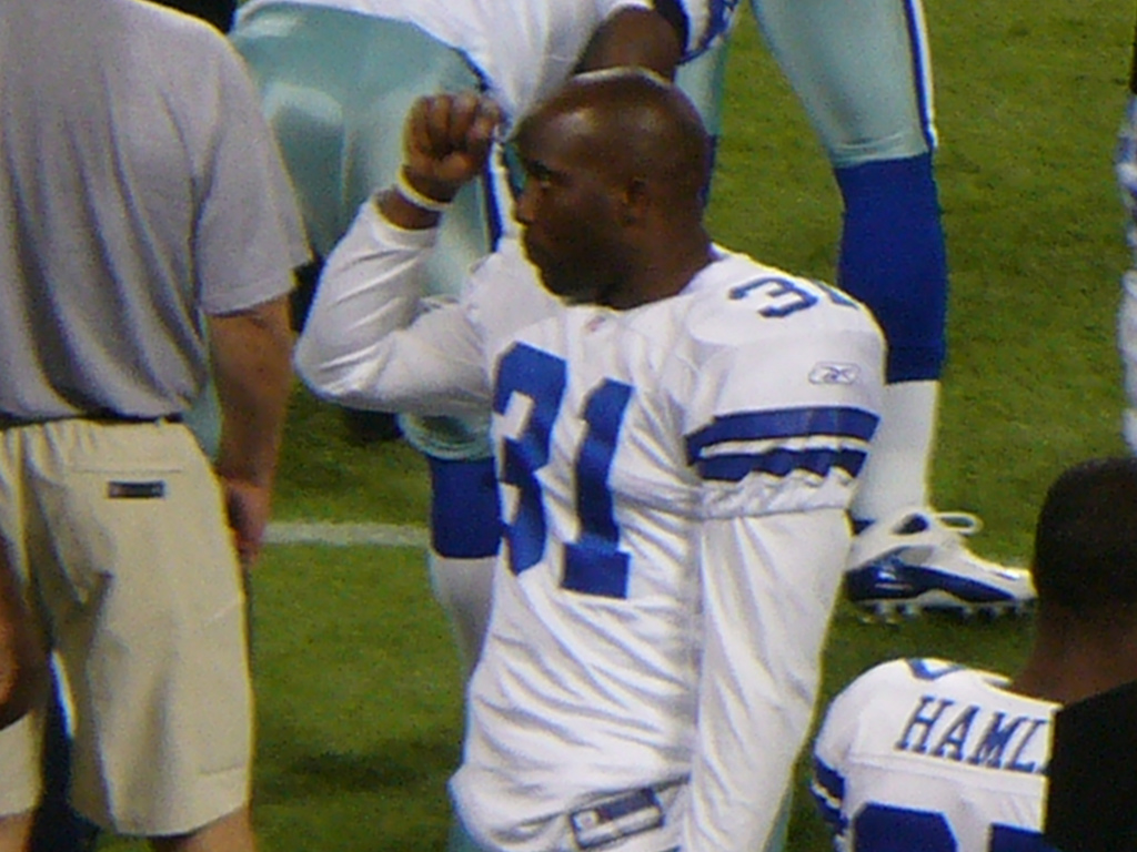 Roy WIlliams, during a game